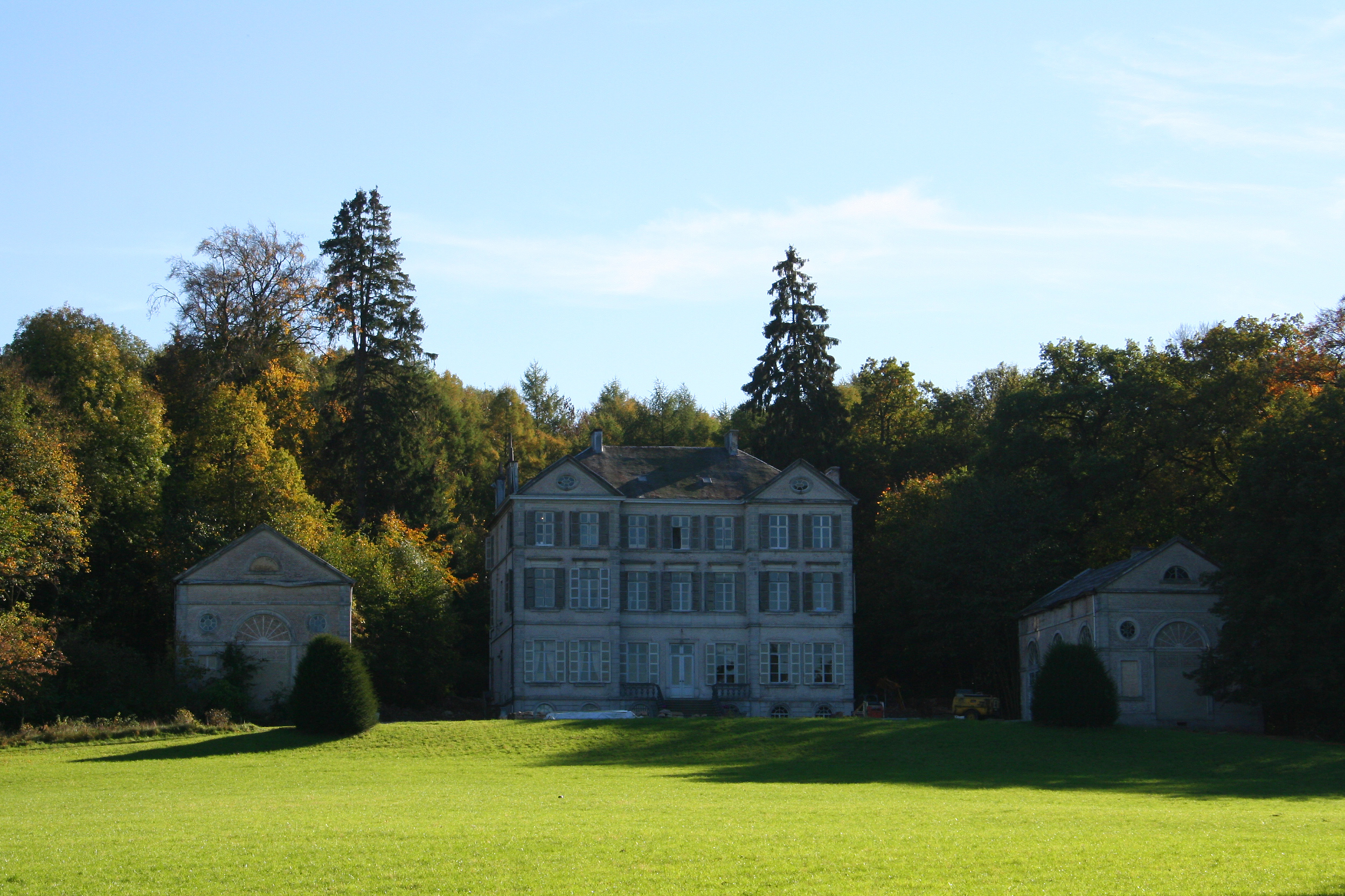 Waha (Belgium), the castle (19th century).